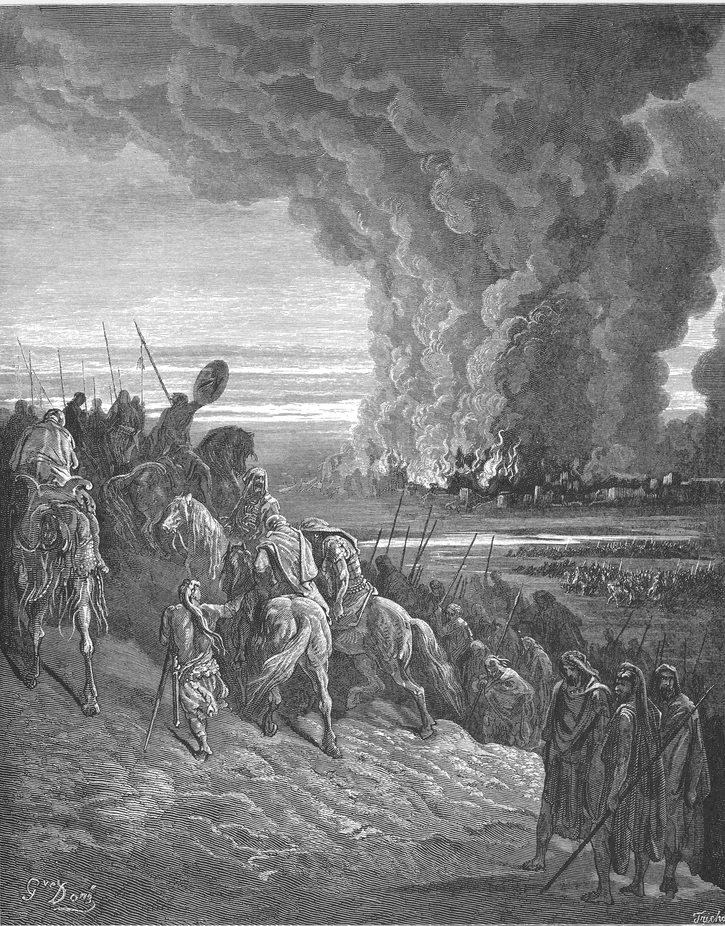 Joshua Burns the Town of Ai (Josh. 8:1-19)